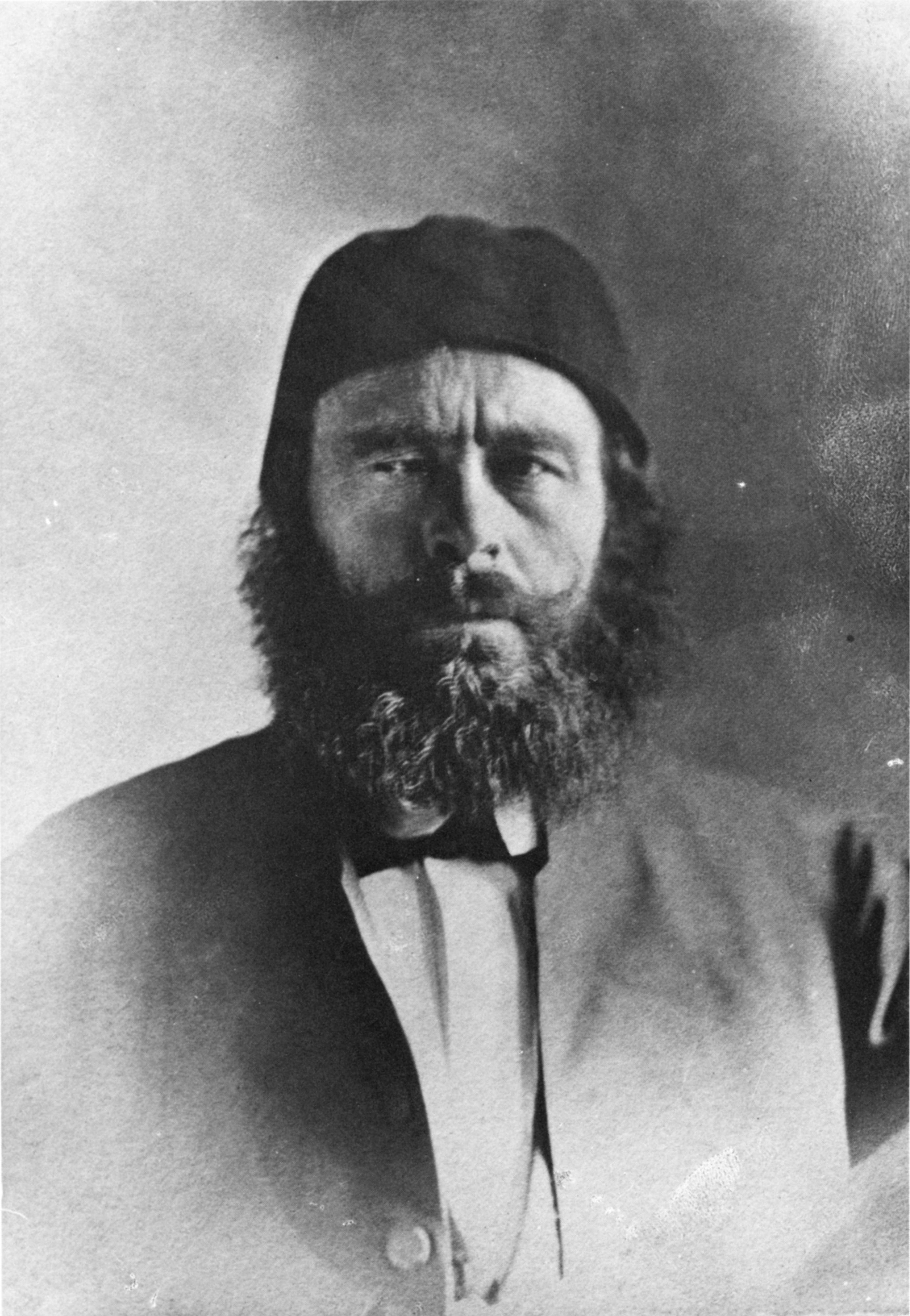 Photograph of Muhammad Sa'id Pasha (1822–1863), wāli (viceroy) of Egypt (1854–1863) and son of Muhammad Ali Pasha.